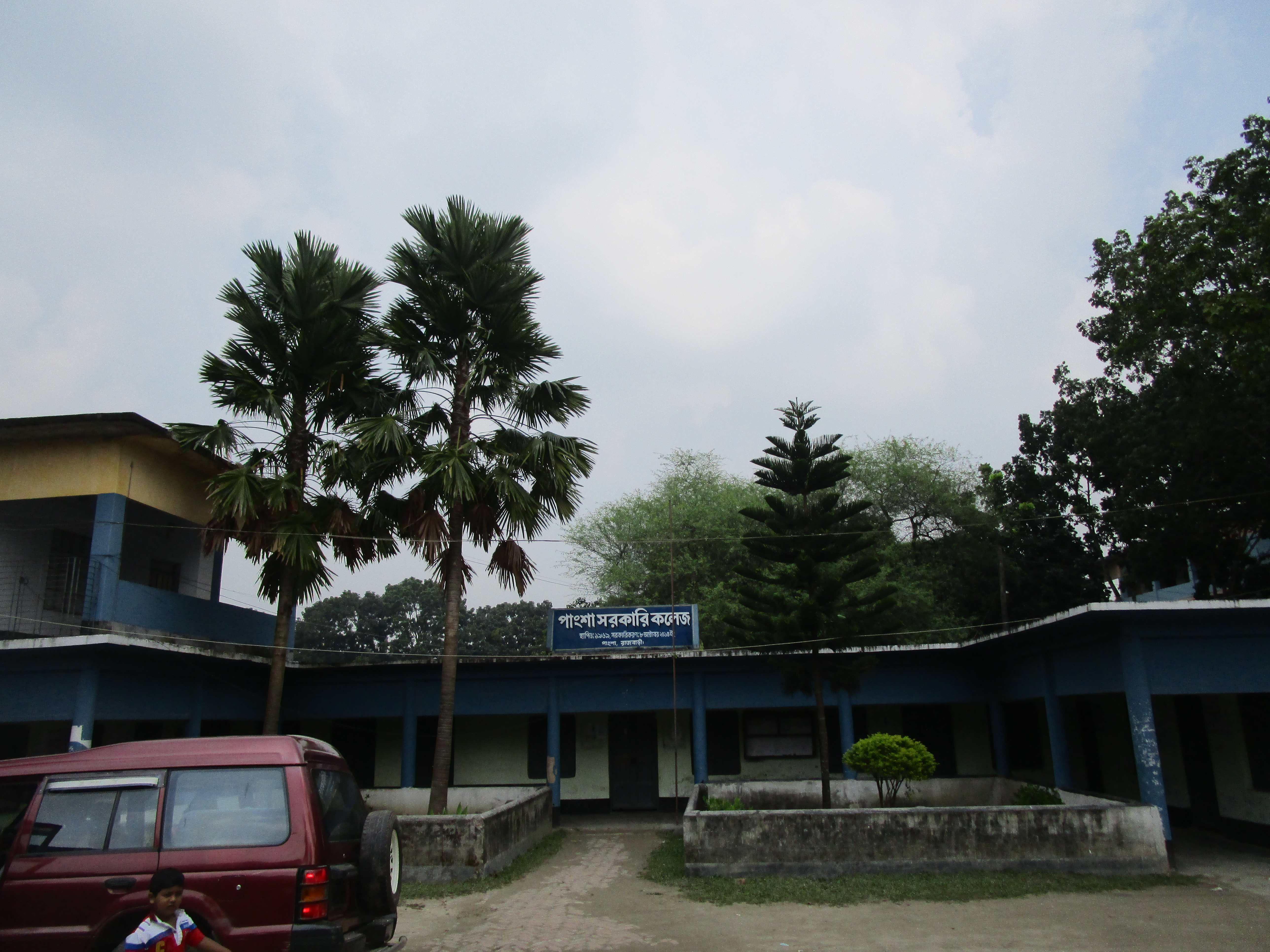 Pangsha Govt College, Pangsha, Rajbari.